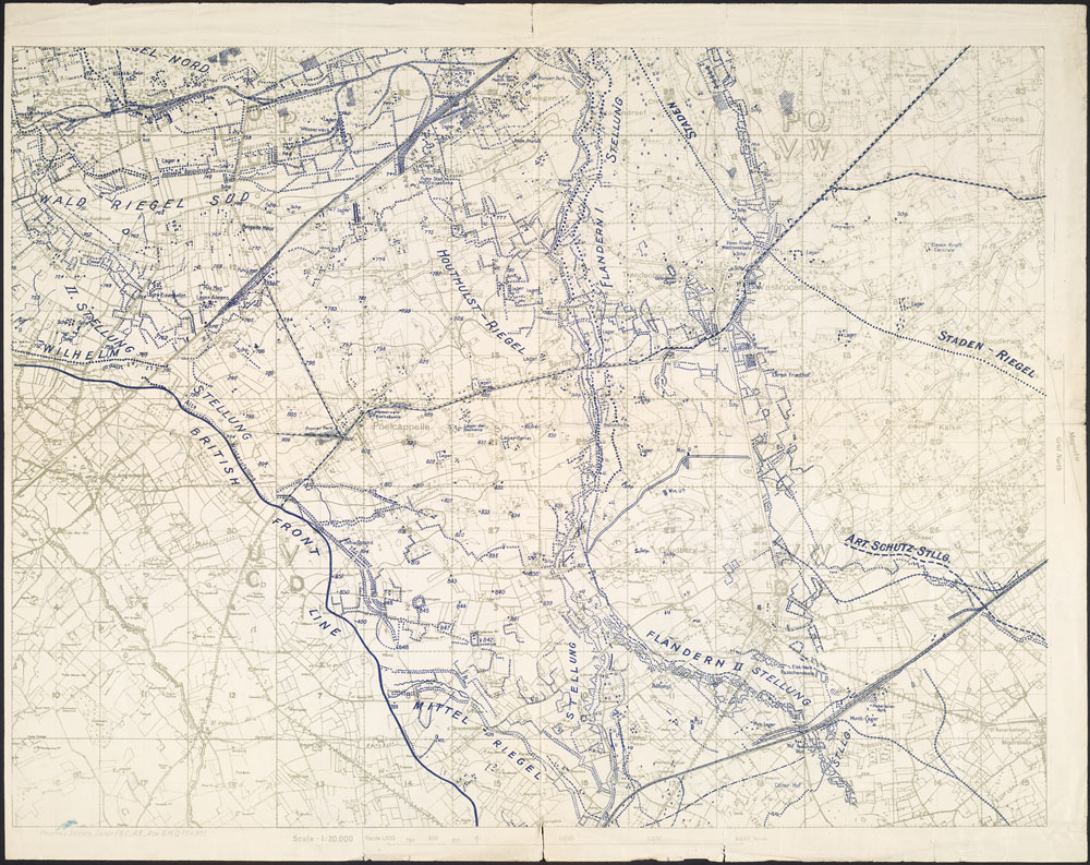 German treanches overprinted in blue on grey base map. Scale 1:20000. Base map in English; overprint in German.